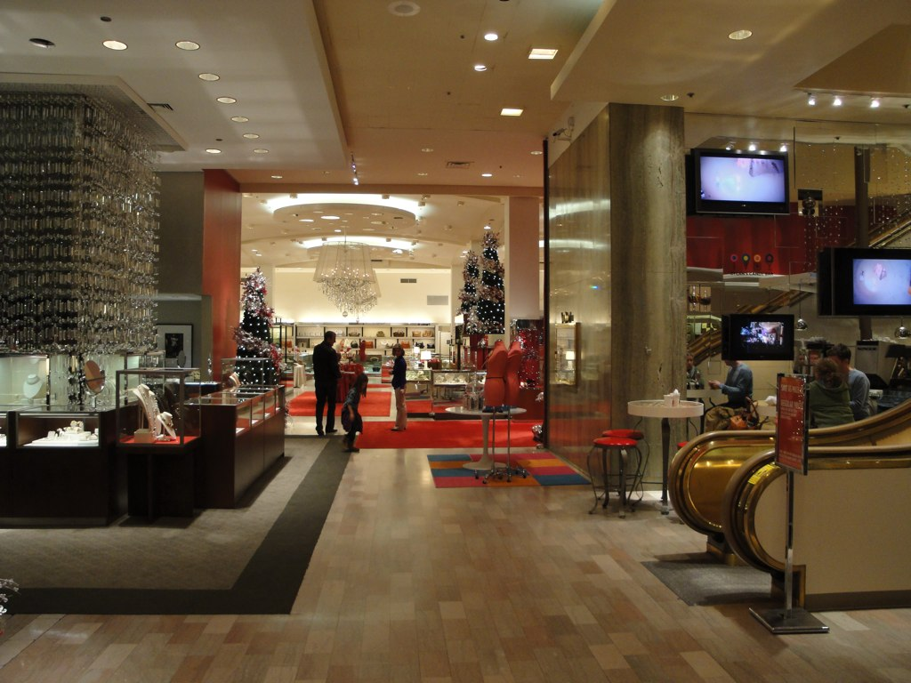 Interior of the historic Neiman Marcus flagship store in downtown Dallas, Texas.